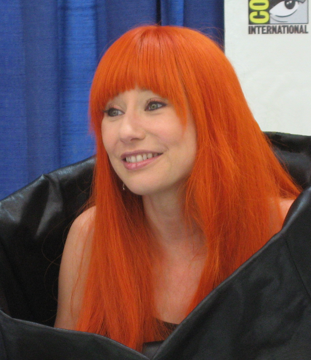 Tori Amos portrait taken at the 2008 Comic Con